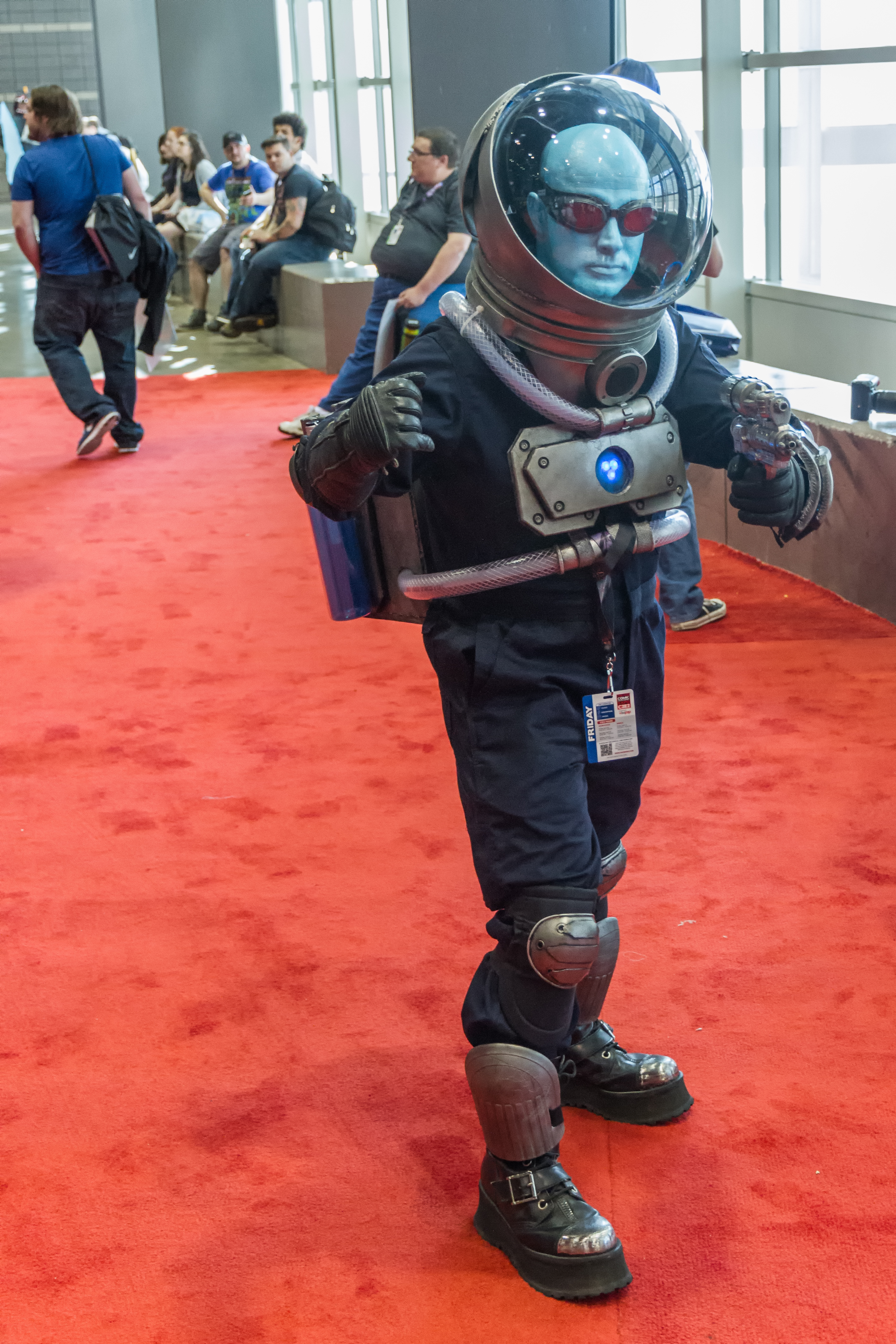 Chill Out